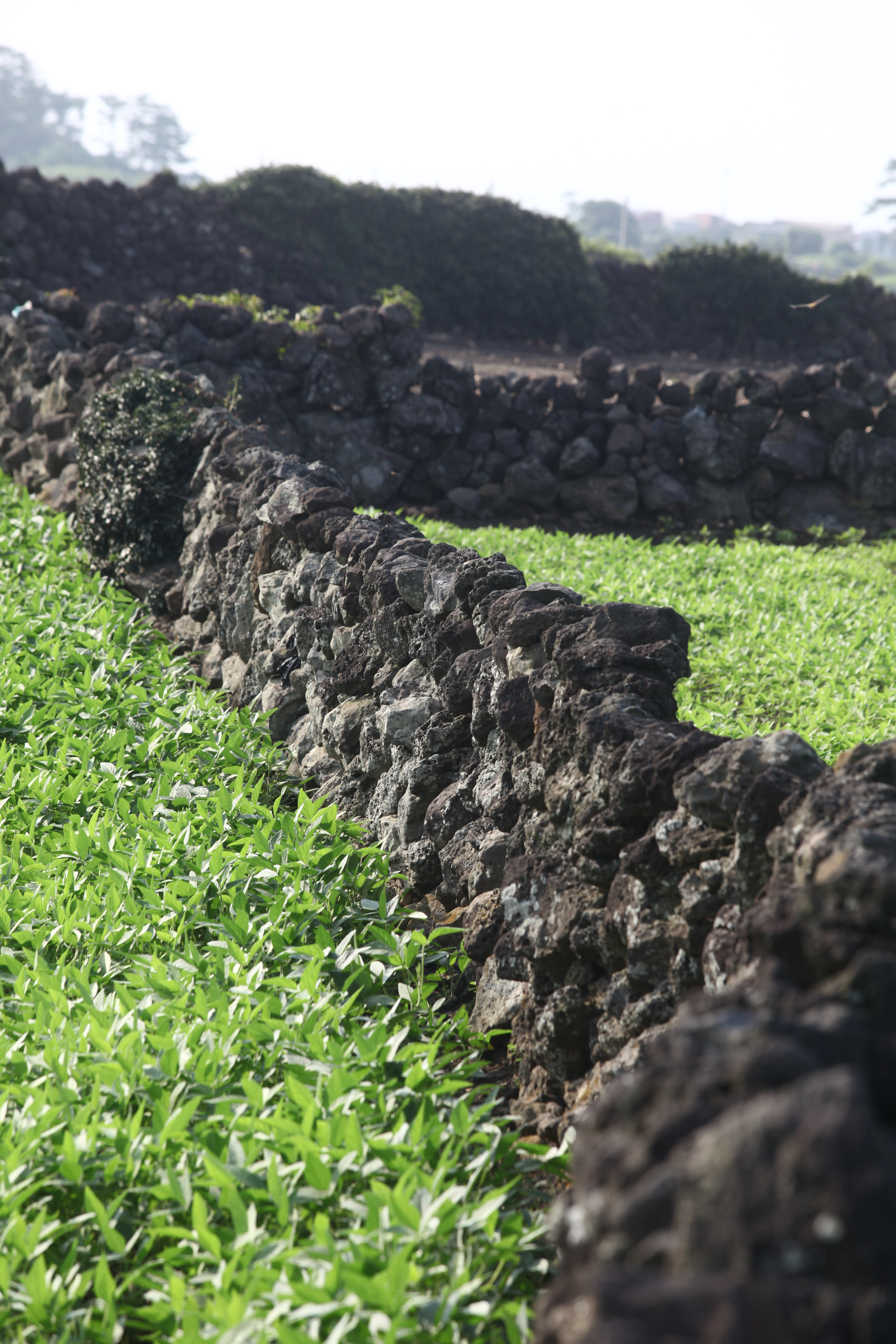 Geo picture Village of comfort and abundance Gimnyeong